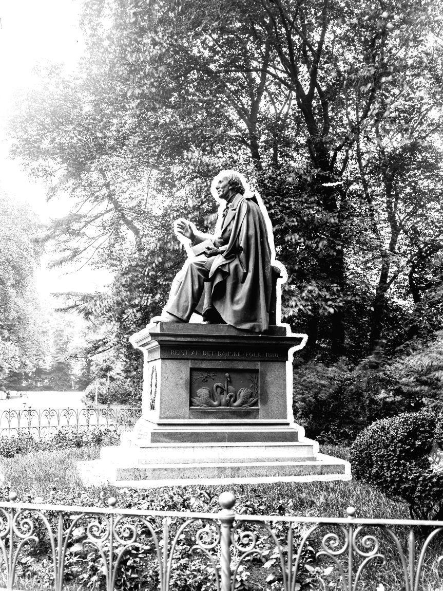 Statue of Gans Christian Andersen in Kongens Have in Copenhagen, Denmark